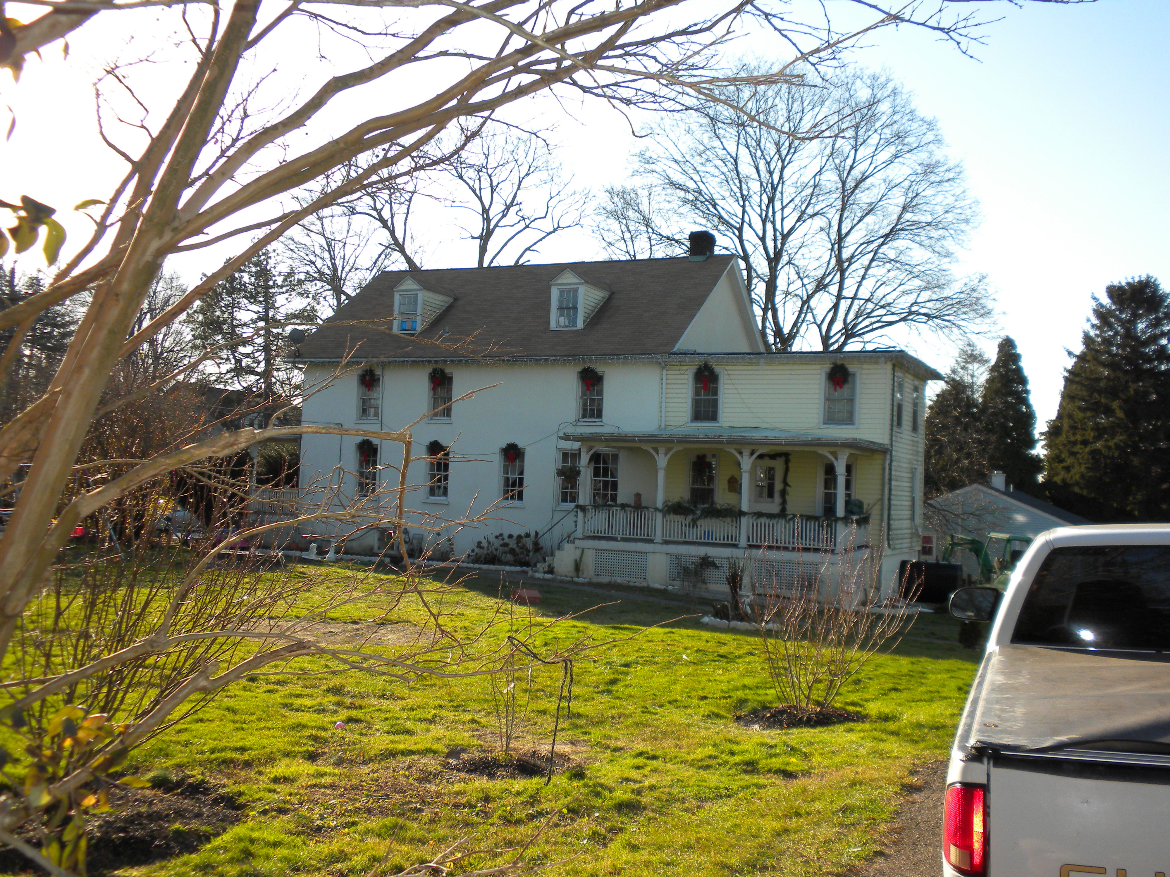 House in Hamorton Historic District near Kennett Square PA in Chester County. On NRHP. Own work donated to public domain.